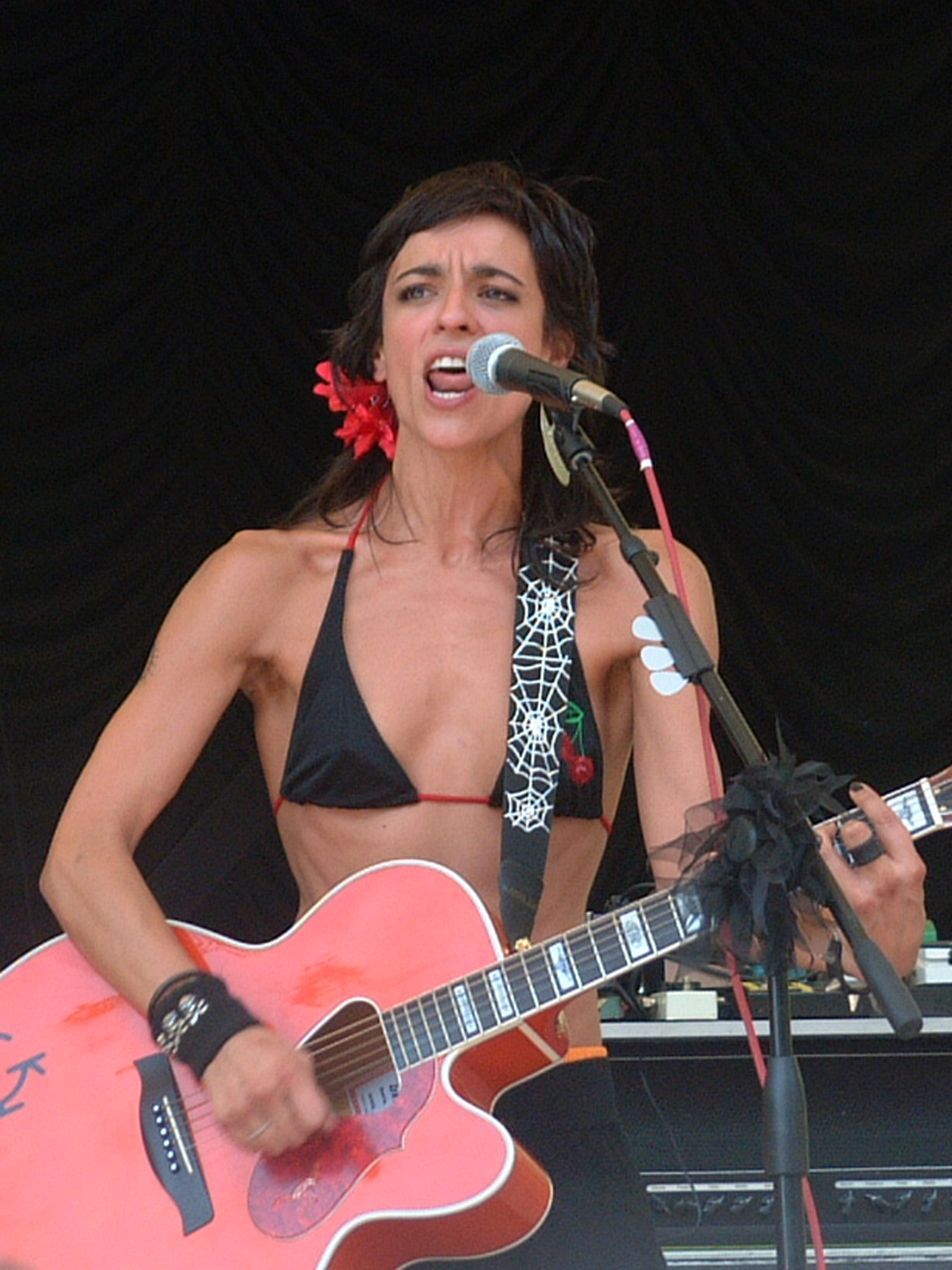 Bebe? Baby? I don't know. But she was a hottie, could sing for miles, and had the crowd eating out of her hand. Her various crotch grabs and atypical "Bush sucks" ranting - even with her broken english - ran a little dry for me.